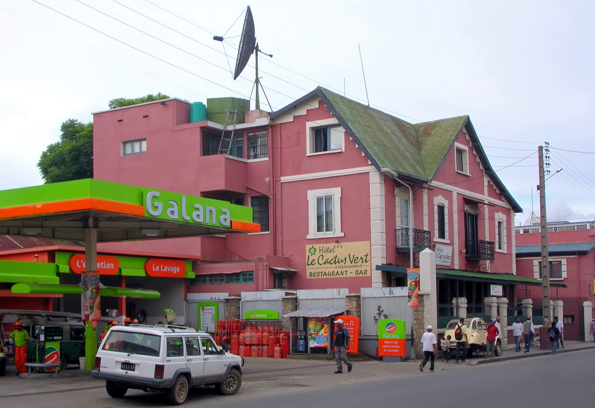 Hotel Le Cactus Vert, Antananarivo, Madagascar